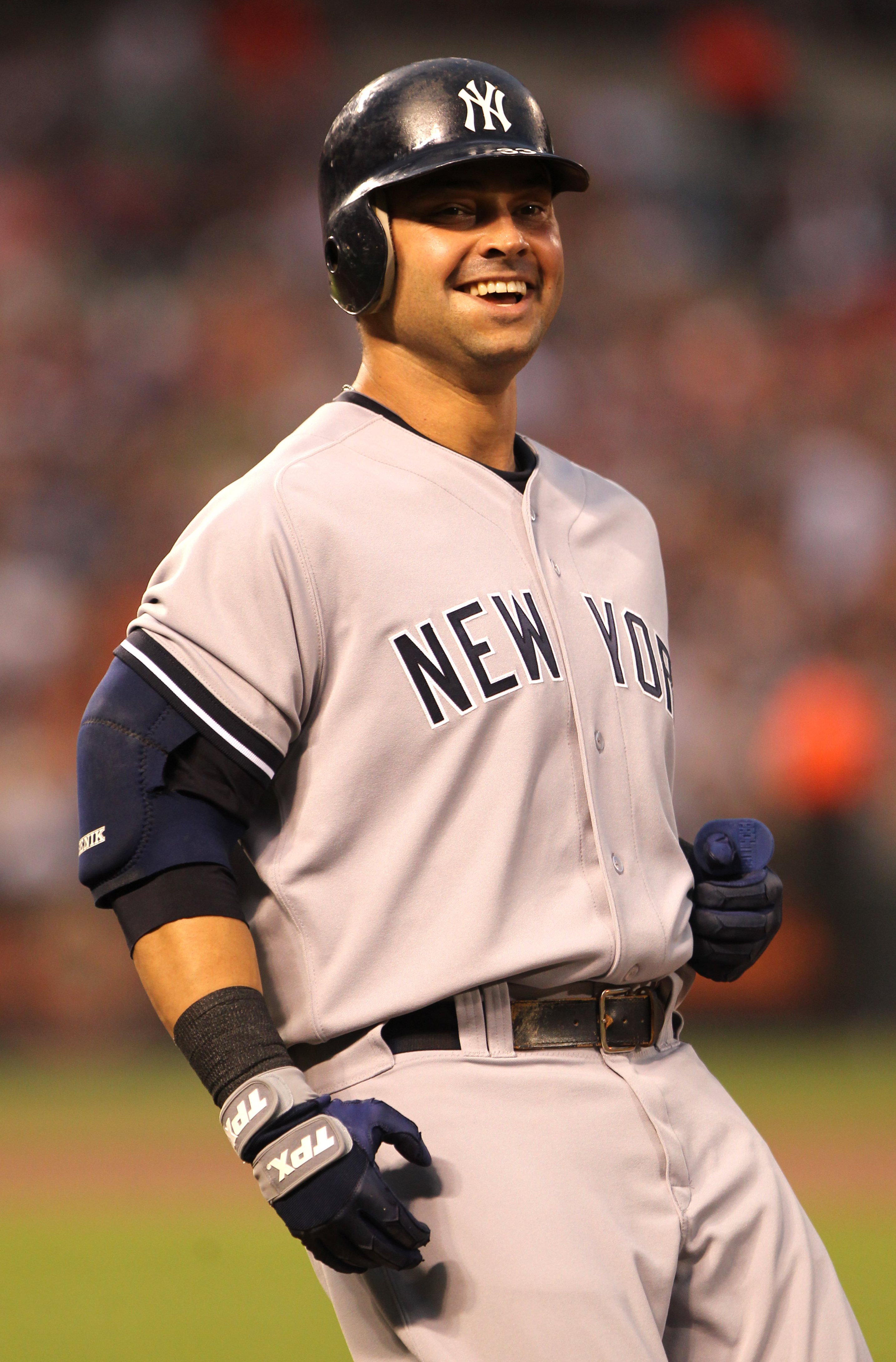 Nick Swisher running on the basepaths during a game between the New York Yankees and Baltimore Orioles on August 26, 2011